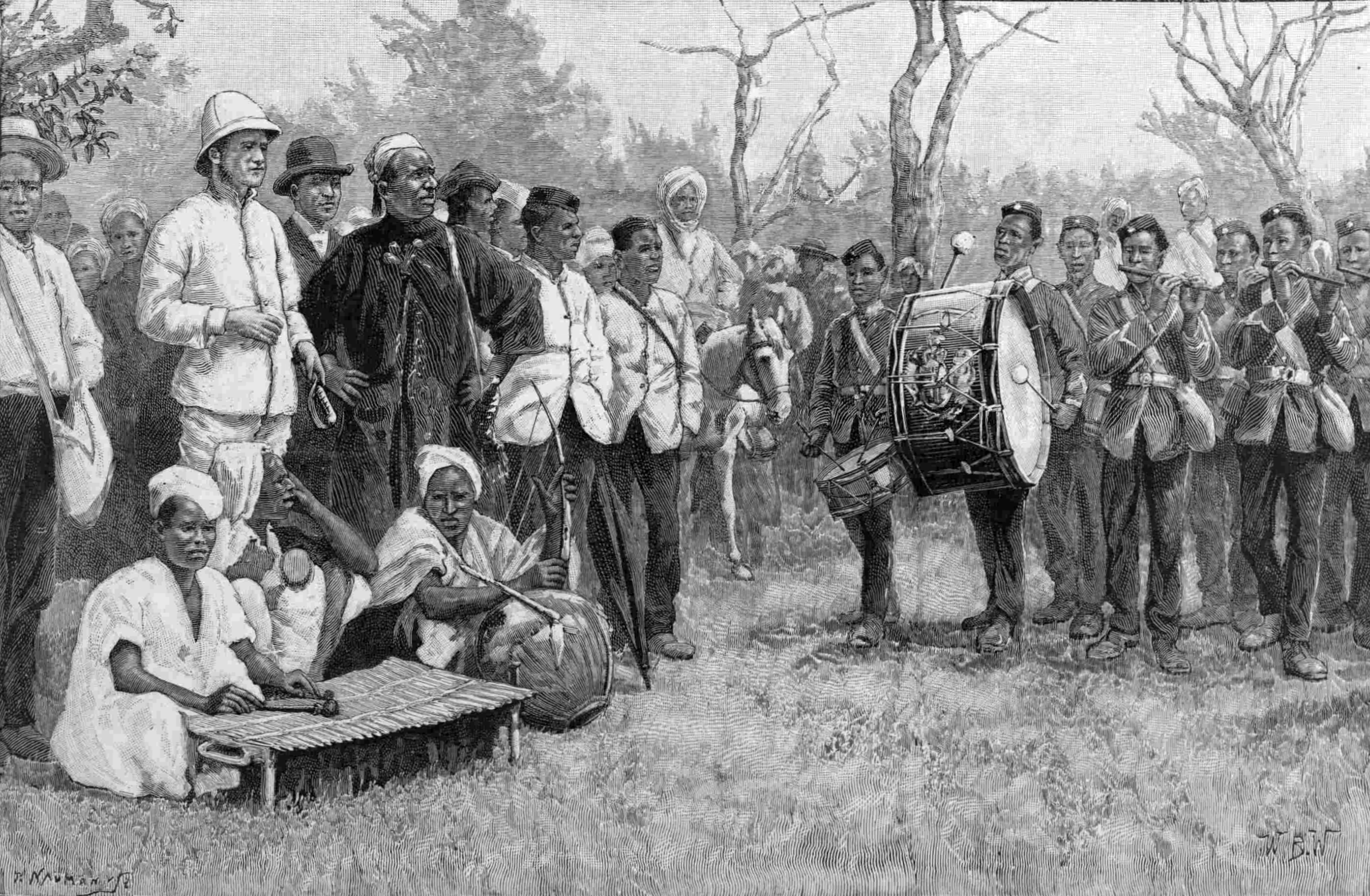 The caption in The Illustrated London News reads: "The British Administrator of the Gambia interviewing a native chief."